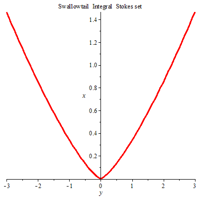 Swallowtail integral Stokes set 1